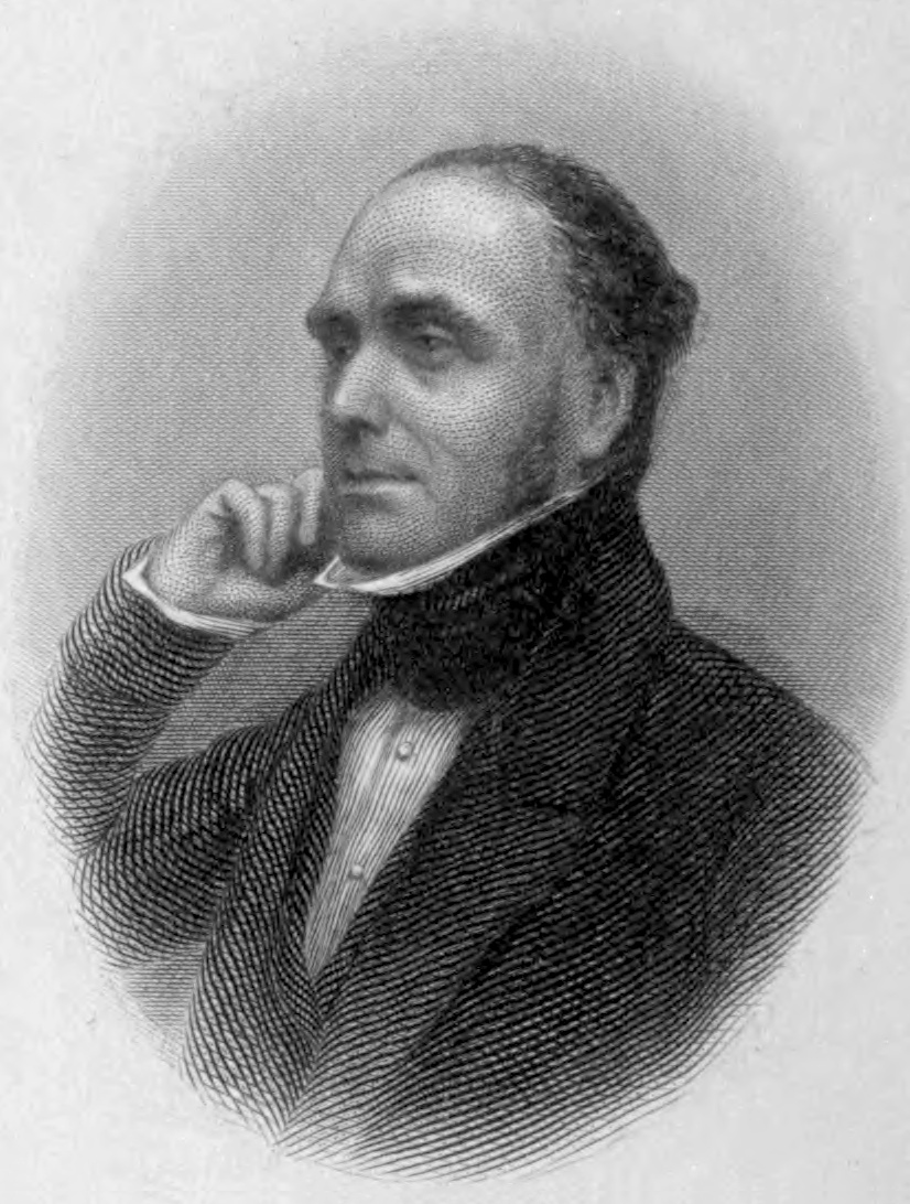 English folklorist John Roby